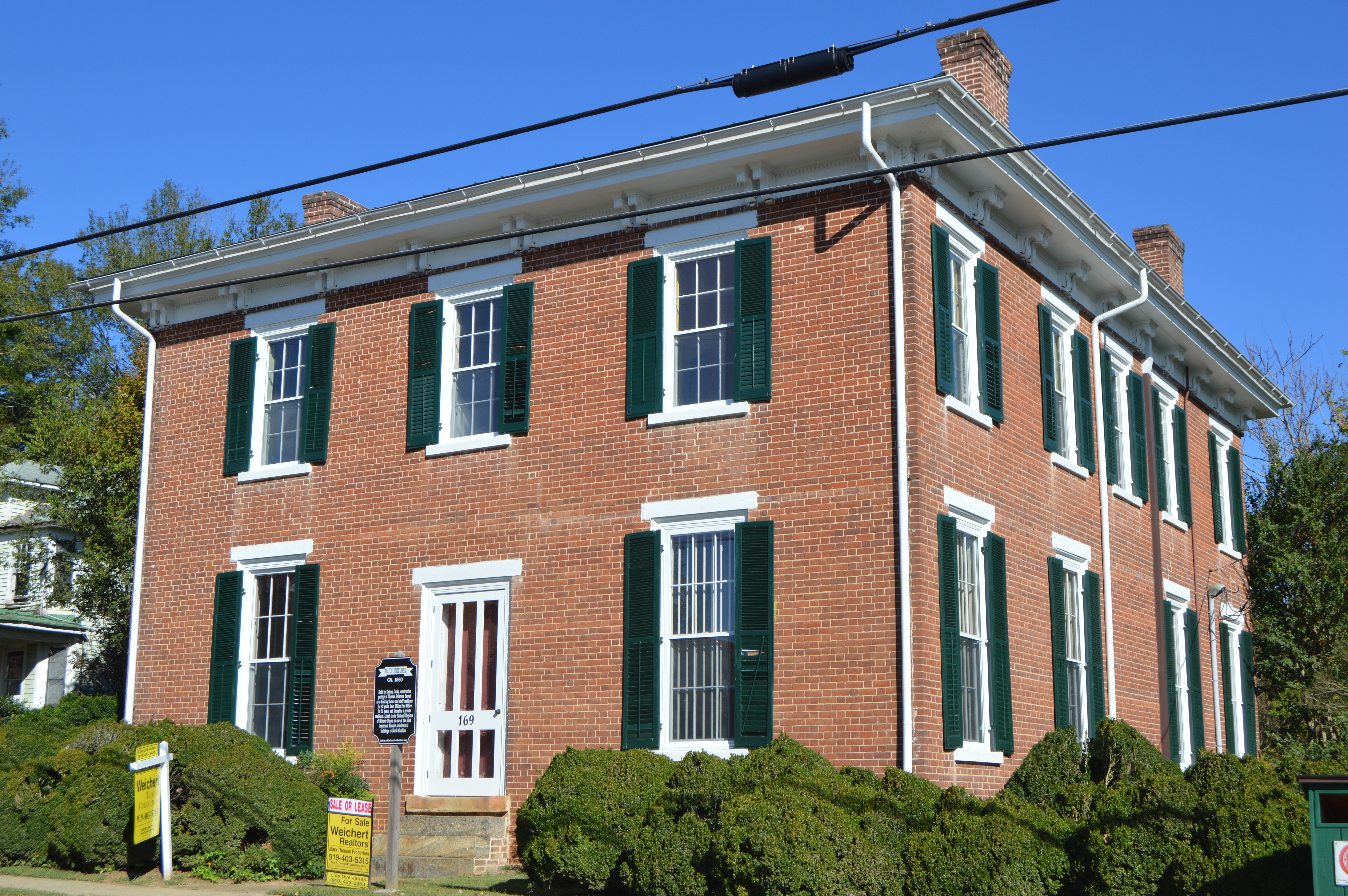 Front and eastern side of the former Milton State Bank (later a post office; now a residence), located on Broad Street (North Carolina Highway 57) in central Milton, North Carolina, United States. Built in 1860, it is listed on the National Register of Historic Places.